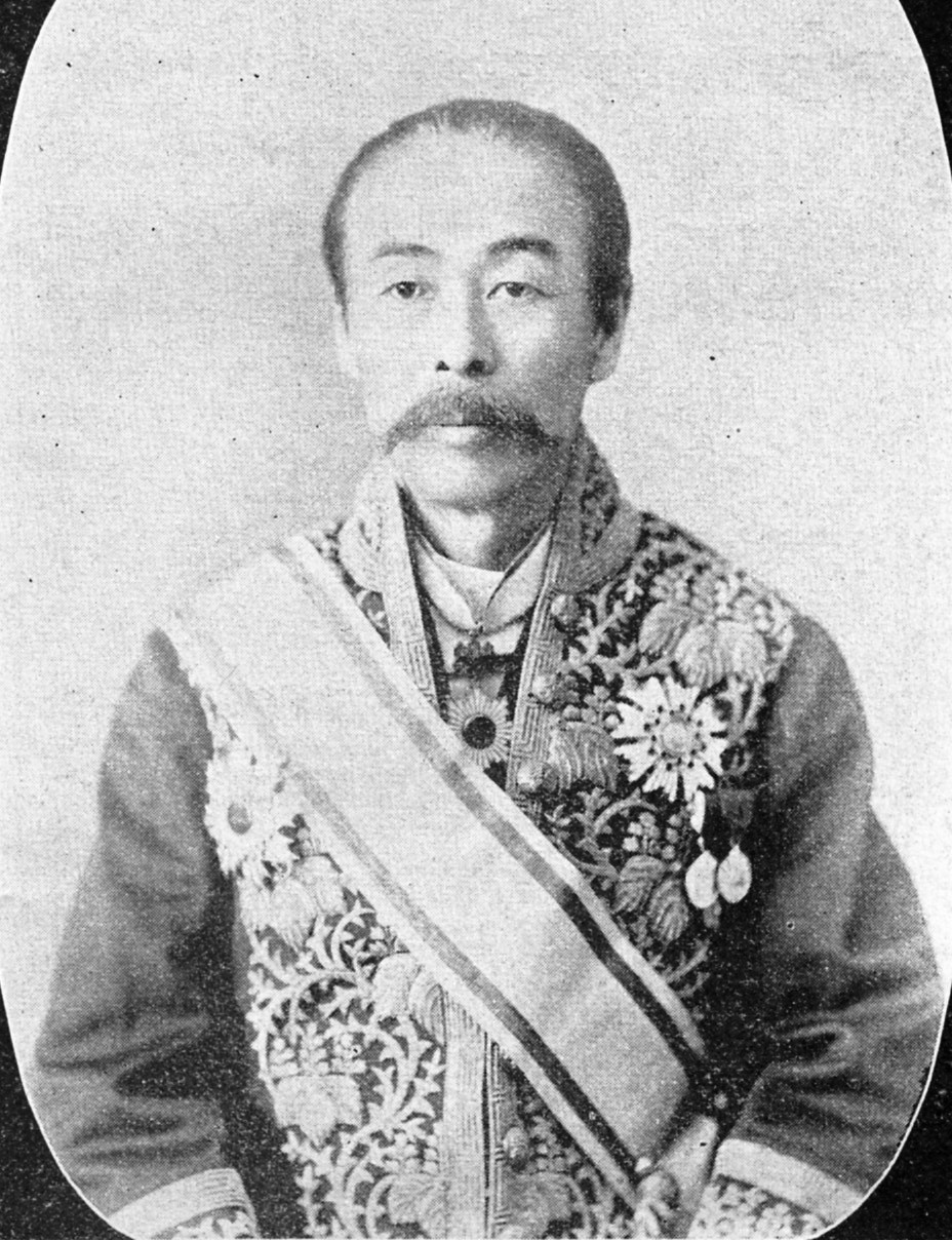 Viscount Kiyooka Tomoharu, Chief of the Palace